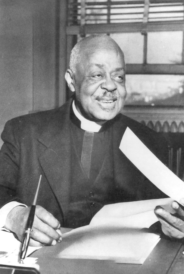 Portrait Profile ca. 1940 Portrait of an American military officer, educator and college president, politician, civil rights advocate and banking entrepreneur. He also founded Georgia State Industrial College for Colored Youth, which is now known as Savannah State University.